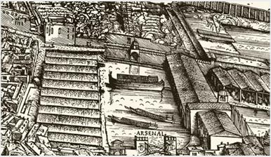 The earliest known depiction of a bucentaur (bucintoro in Venetian). Detail from Jacopo de' Barbari's woodcut Planta di Venezia (Map of Venice) published in 1500.